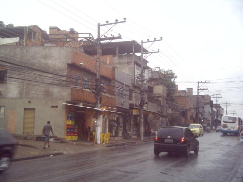 Neighborhood (favela) of "Morro do Juca" in Rio de Janeiro, RJ, Brasil.